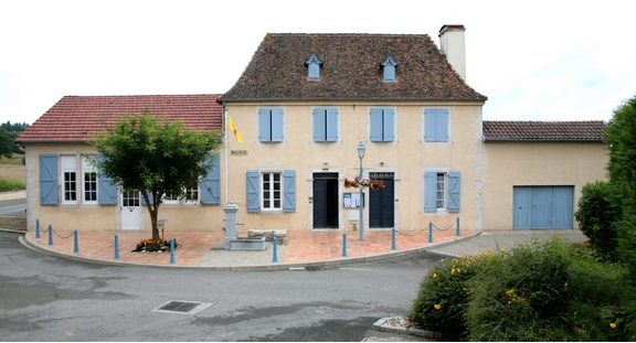 Mairie de Lanneplaà